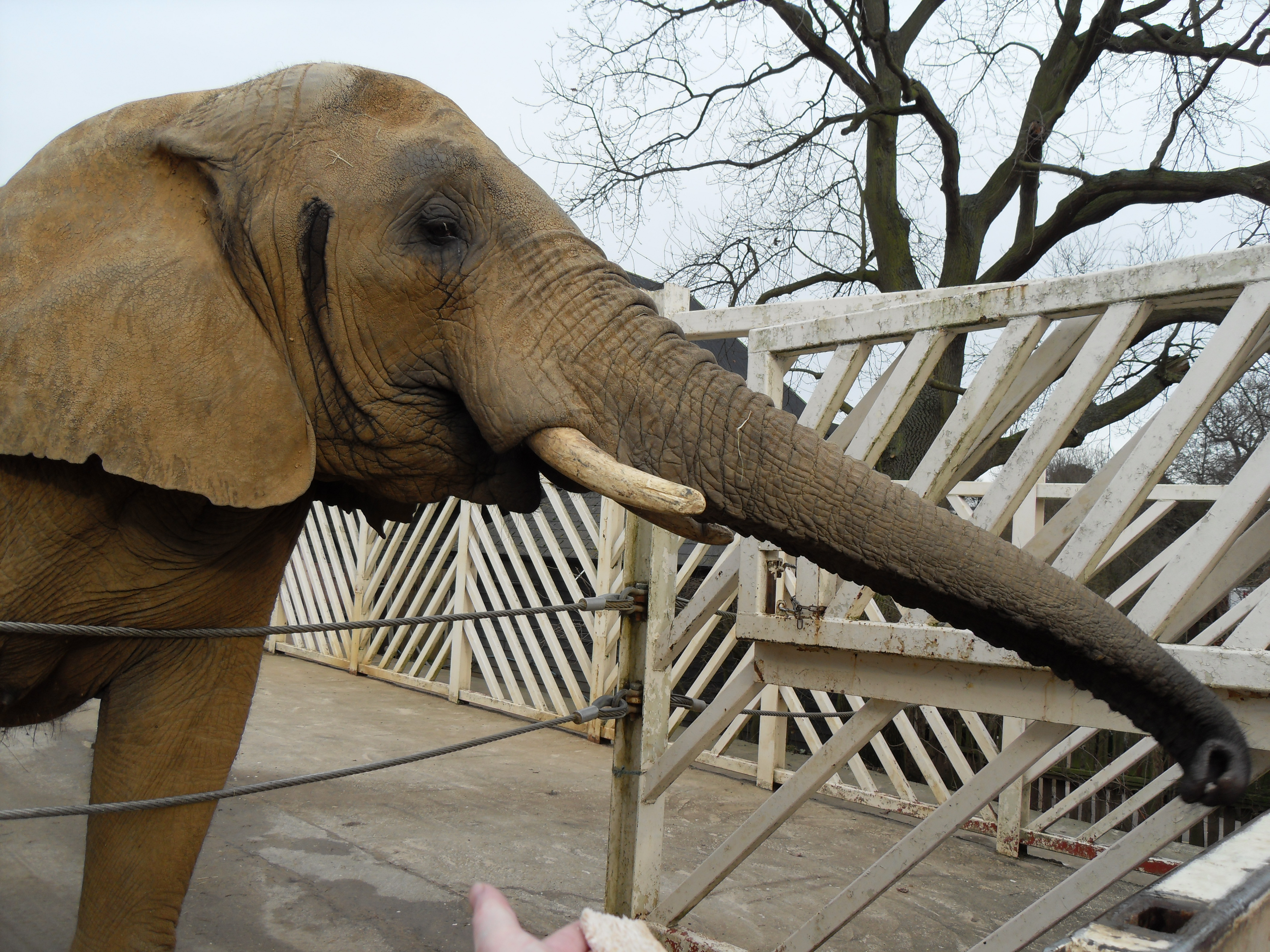 A African elephant at Colchester Soo